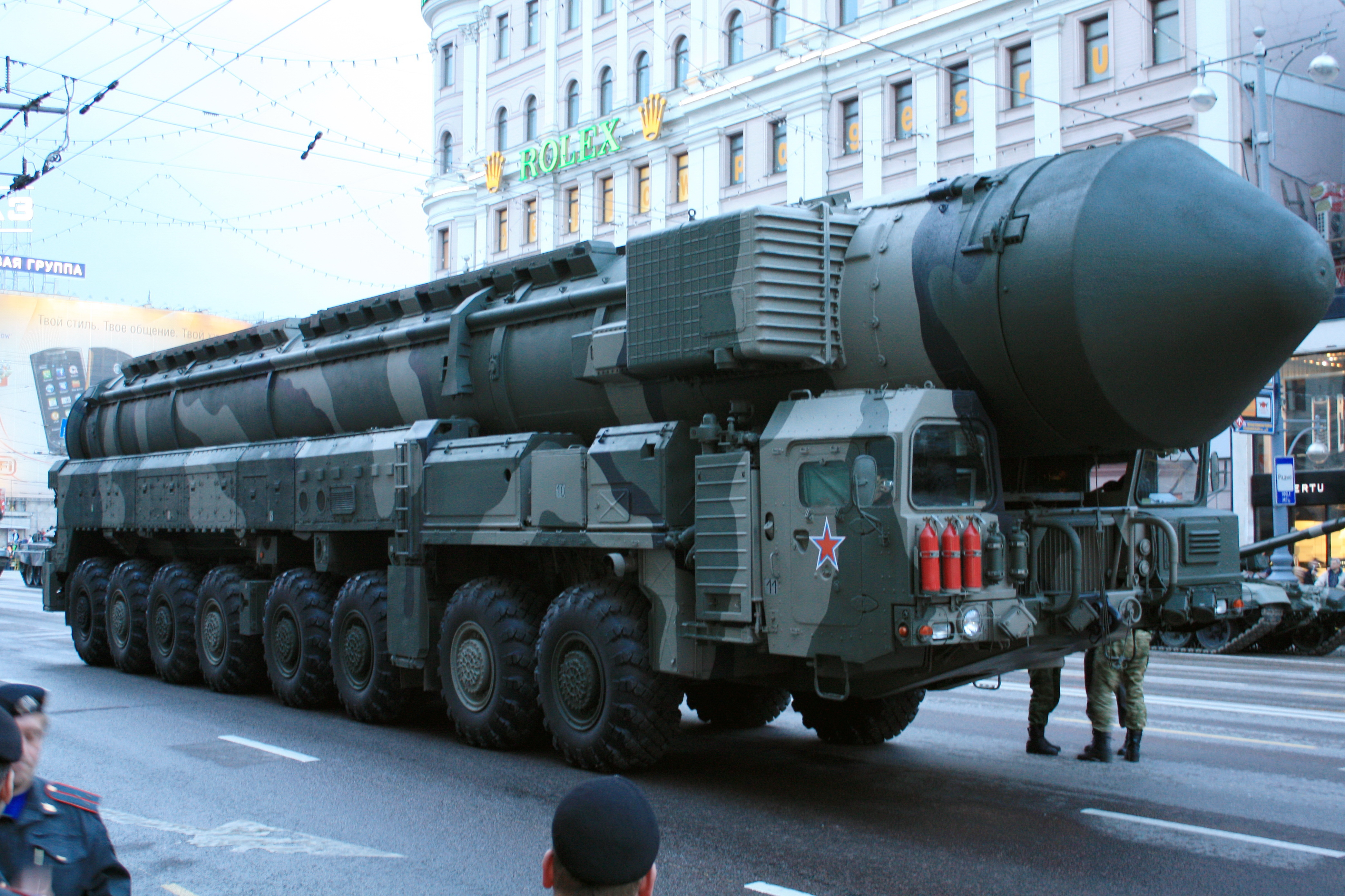 An army truck MZKT 79221 under missile Topol-M (RT-2PM2)